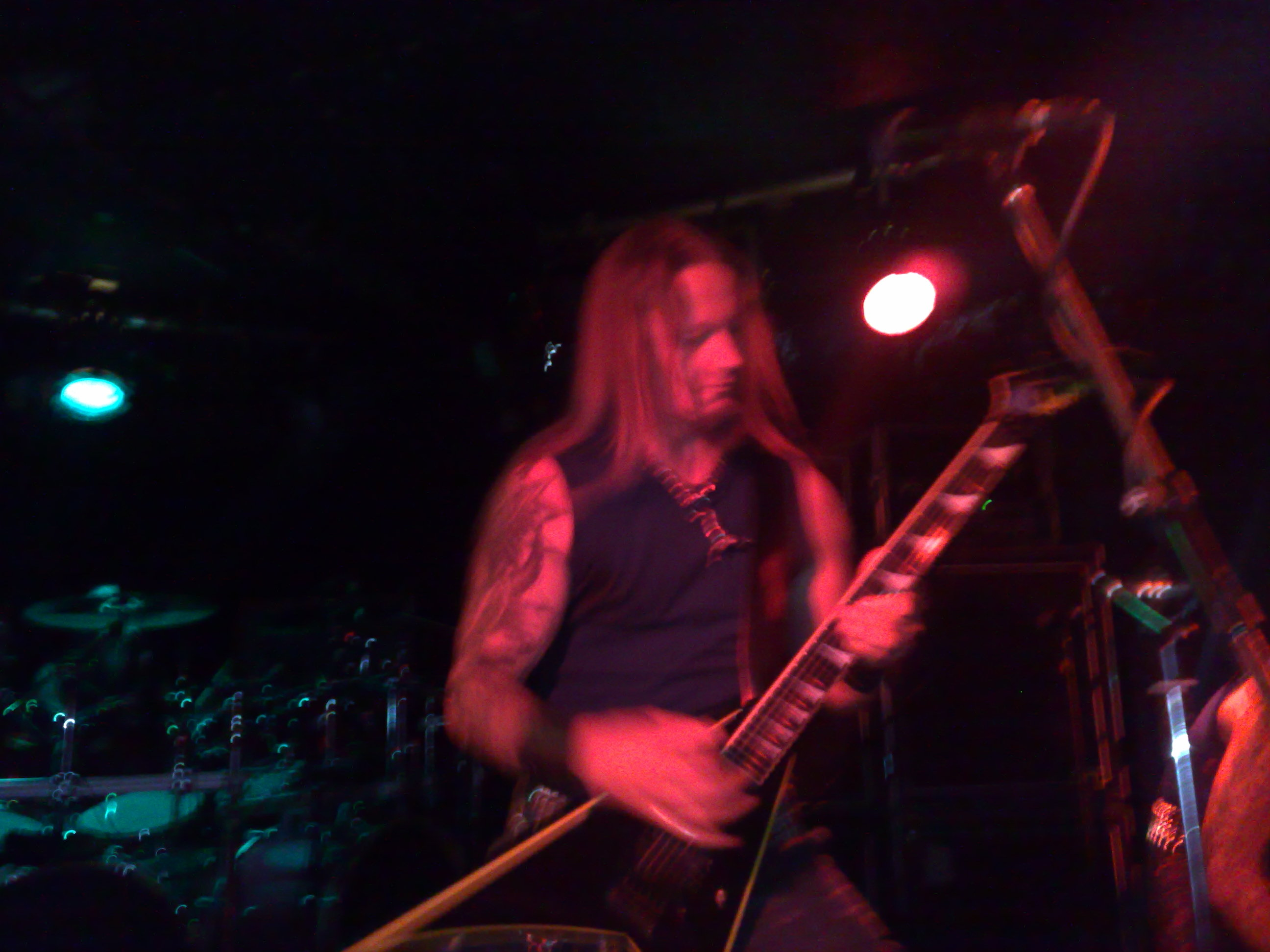 Helmuth of Belphegor performing live in London, England